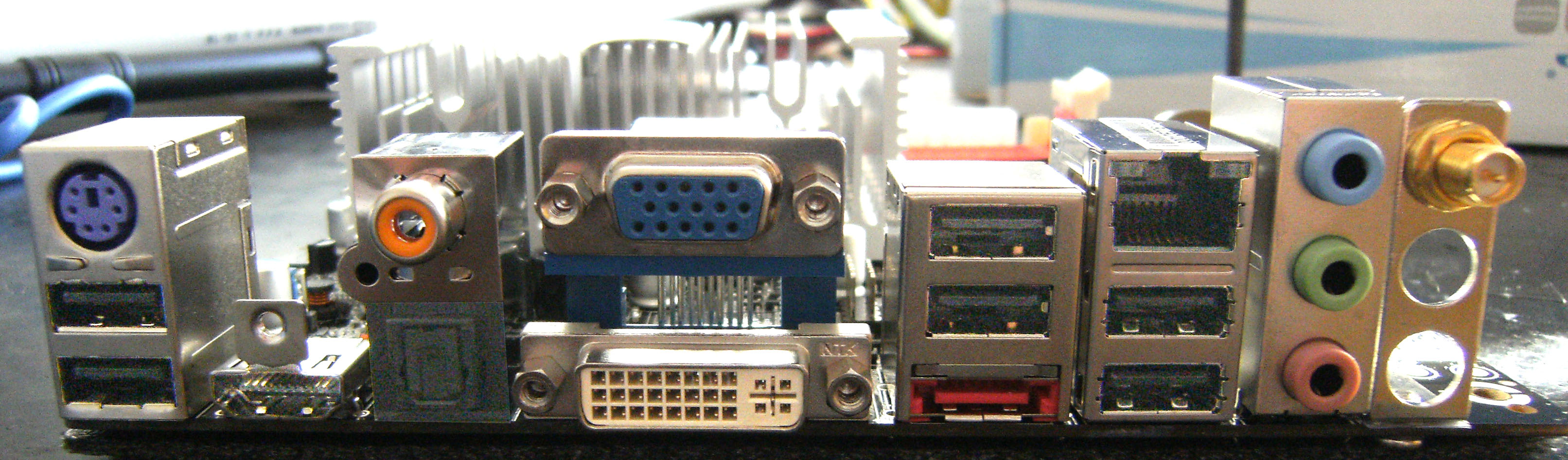 Rear panel of File:ZotacION.jpg